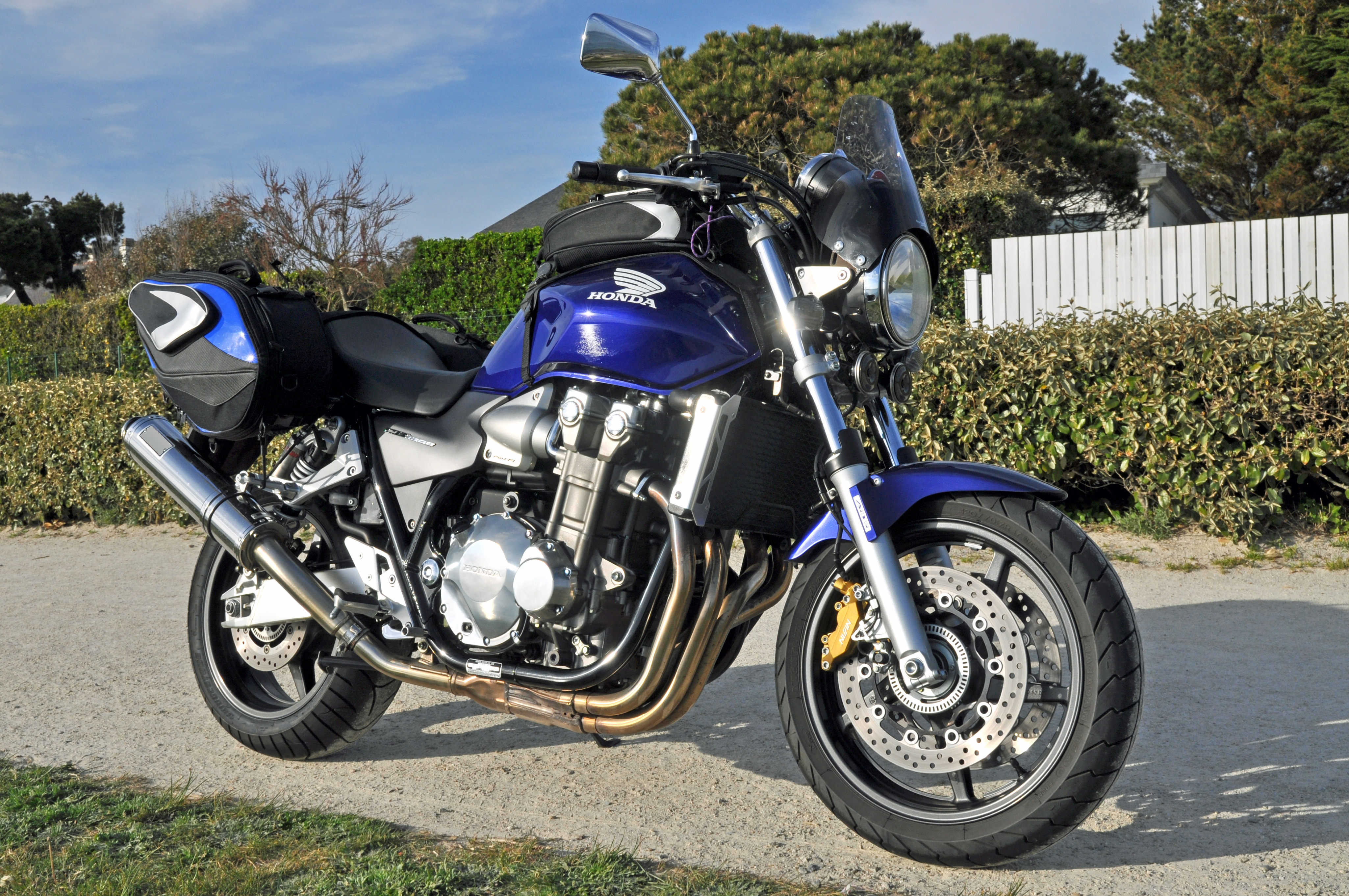 Honda CB1300 2007 Blue